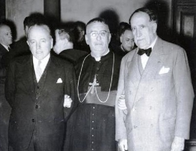 Raul Porras Barrenechea, Salvador Herrera Pinto y Víctor Andrés Belaúnde.